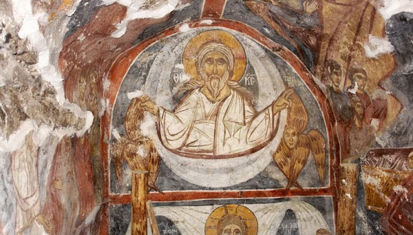 Fresco from St. Demetrious Church in Gradešnica, Macedonia